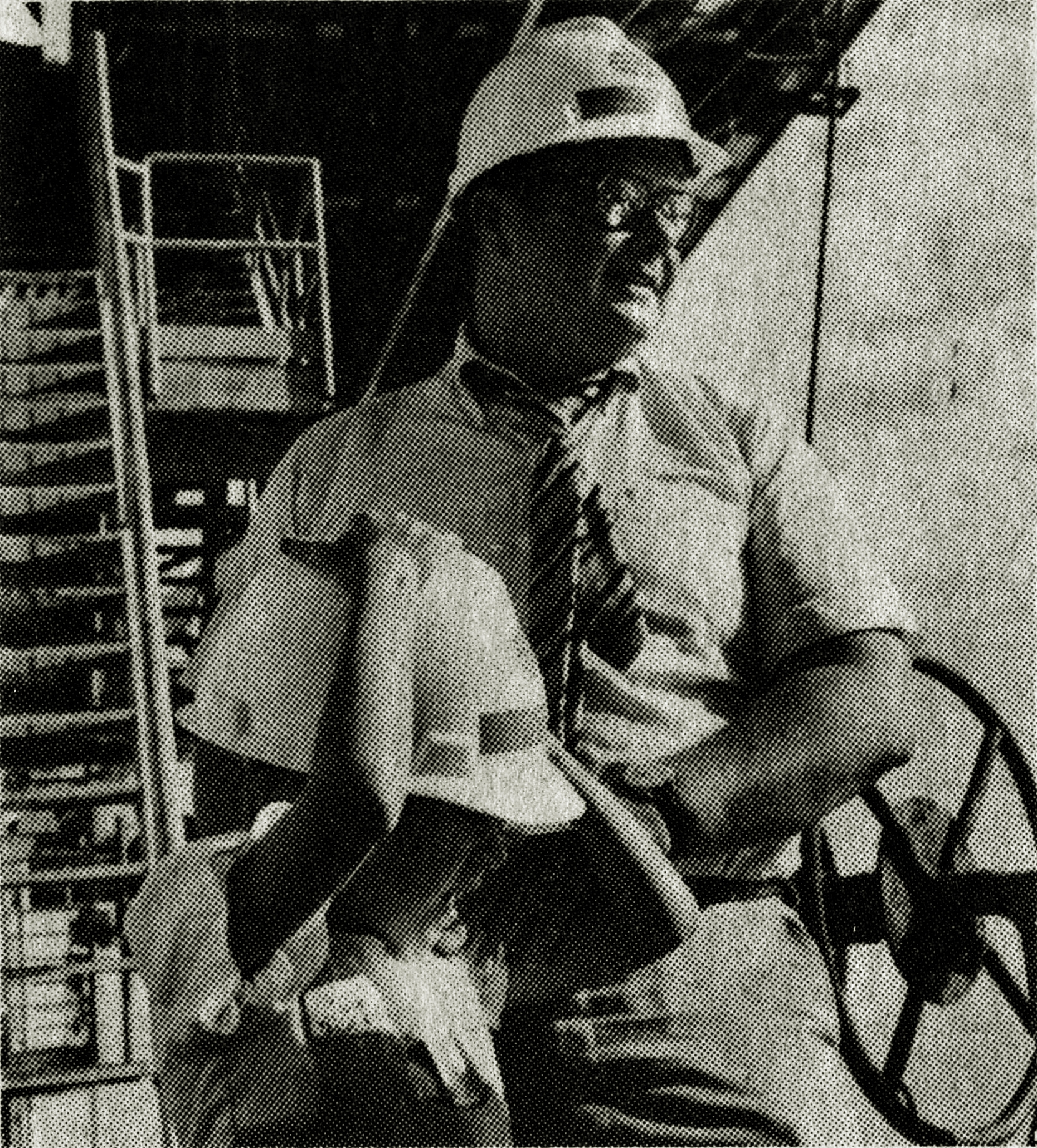 Roger Lea MacBride (1929–1995) was an American lawyer, politician and television producer, best known for developing the Little House on the Prairie franchise and for running for president of the United States as the Libertarian Party nominee in the 1976 election. In this photo, MacBride tours the Prudhoe Bay Oil Field during his campaign. It would appear that MacBride and his young companion are looking on in awe at active operations occuring at that moment.